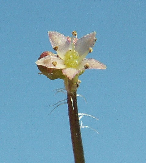 Flower of Hydrocotyle vulgaris. Turze on Miedwie Lake, NW Poland